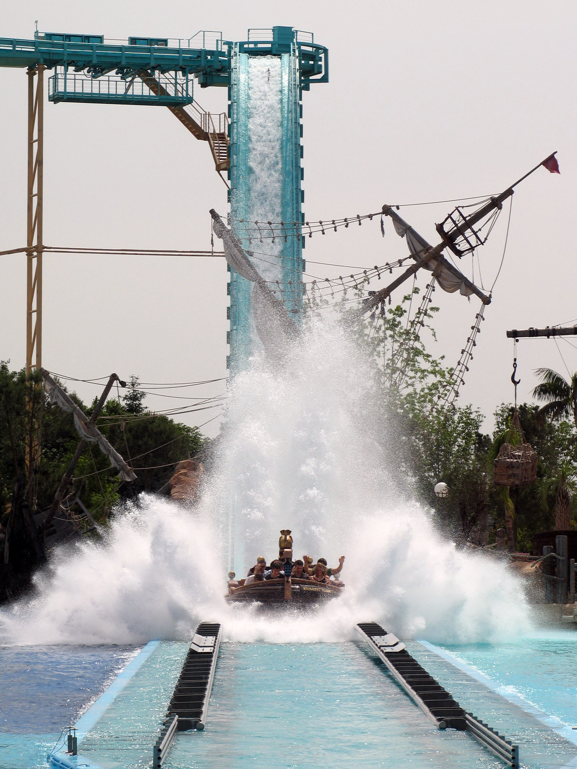 Atlantica SuperSplash, Europa-Park, Rust, Baden-Württemberg, Germany.